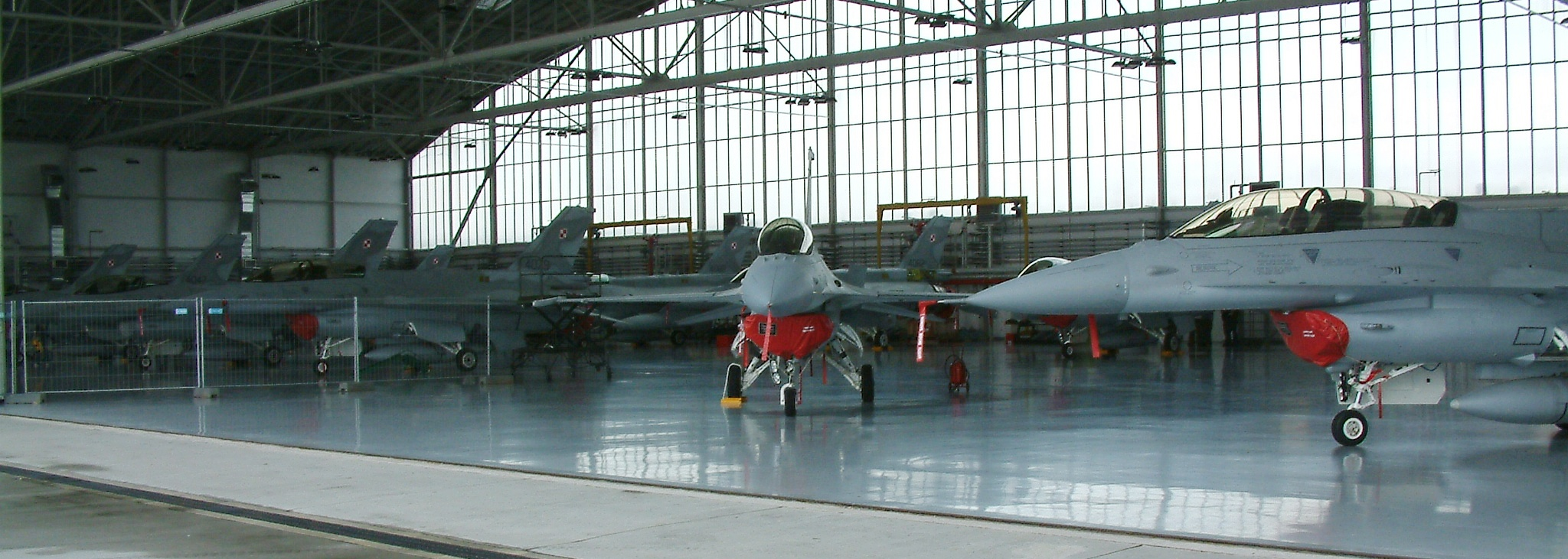 F-16C and D block 52+ of 3rd Tactical Sqn (Polish Air Force), 31st Air Base Poznań-Krzesiny